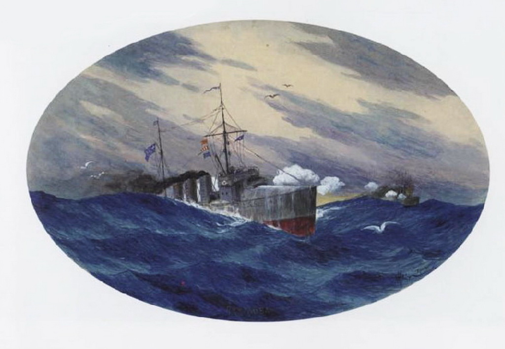 Greek destroyer Doxa